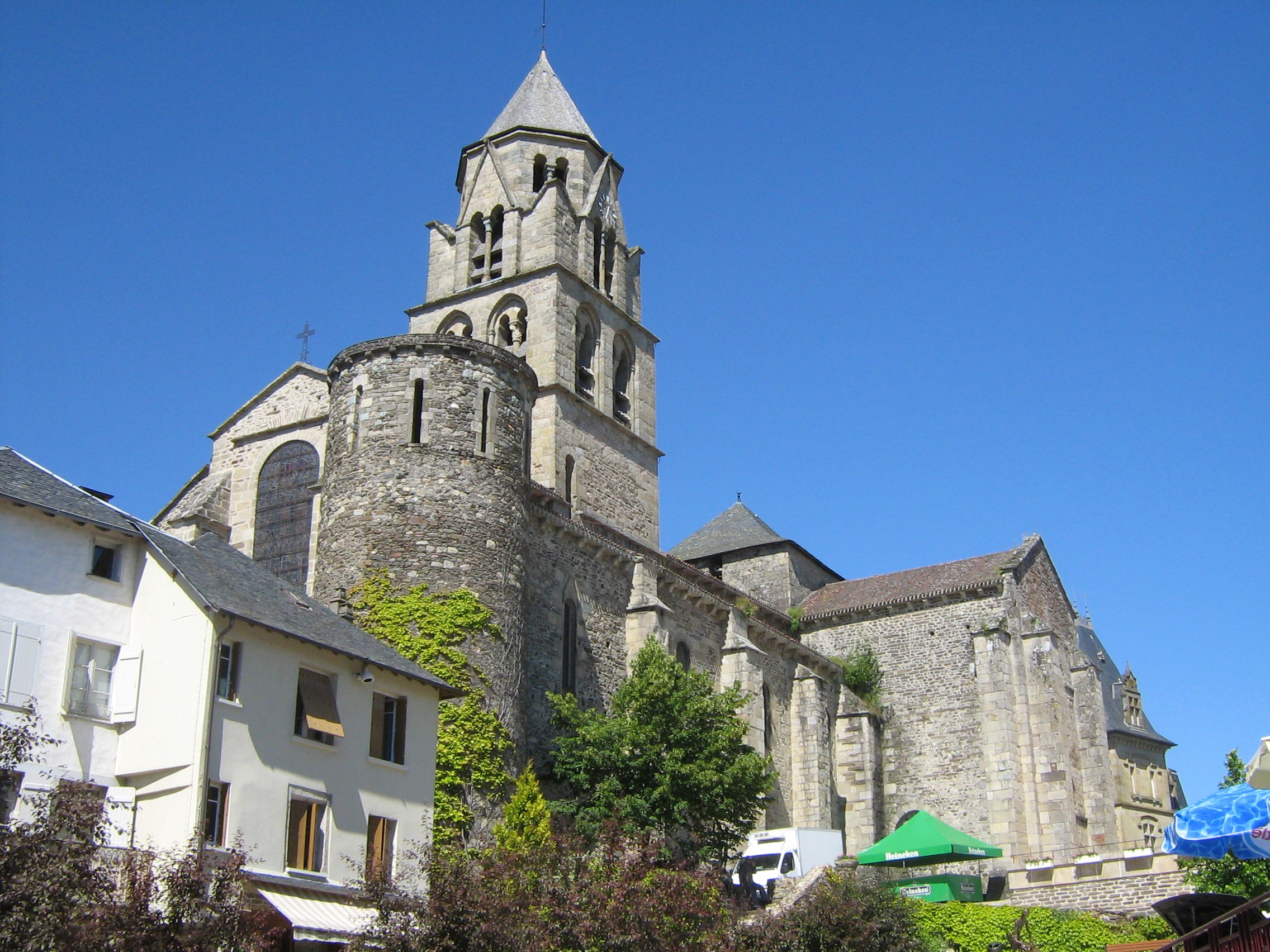 uzerche